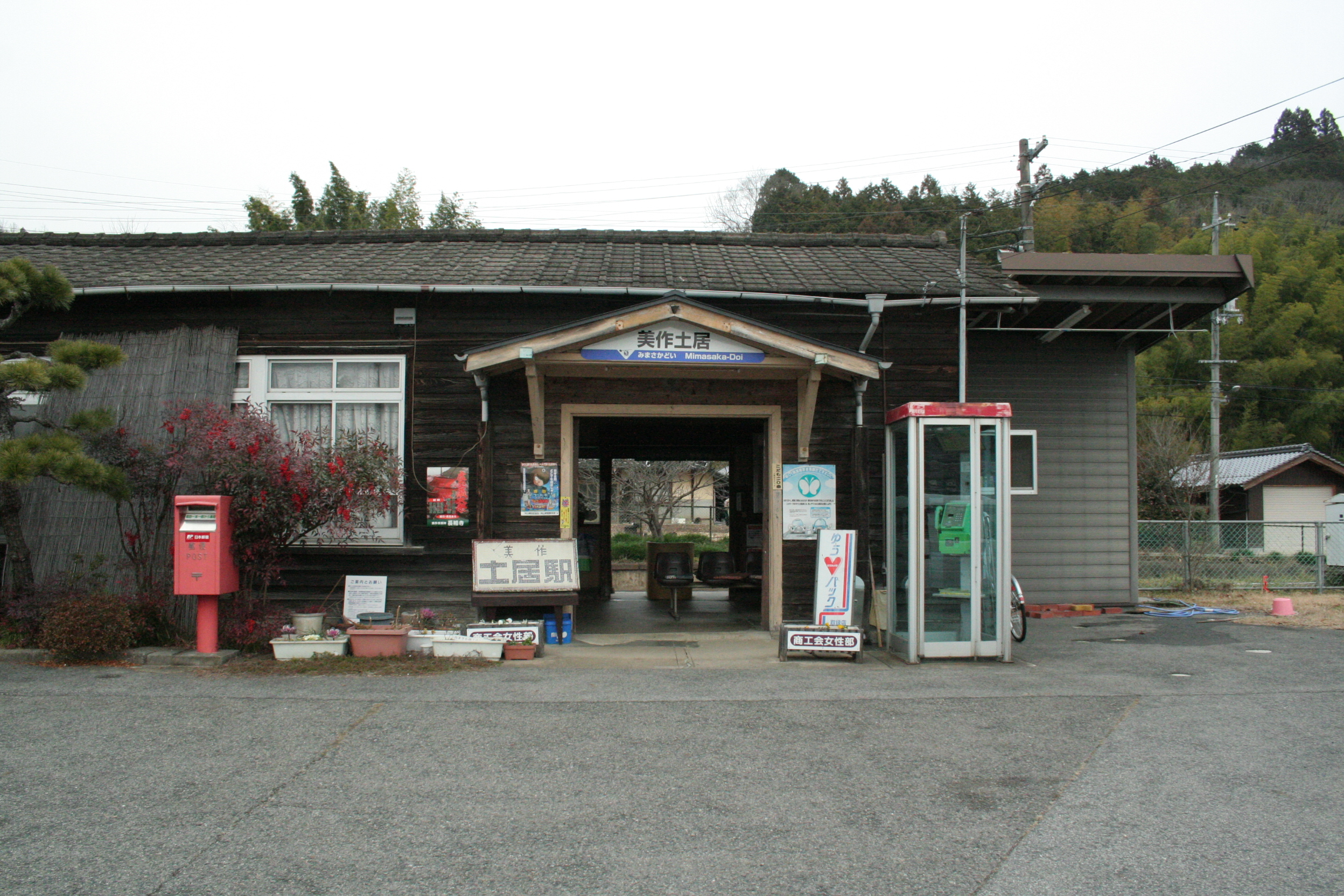 Mimasaka-Doi Station entrance.